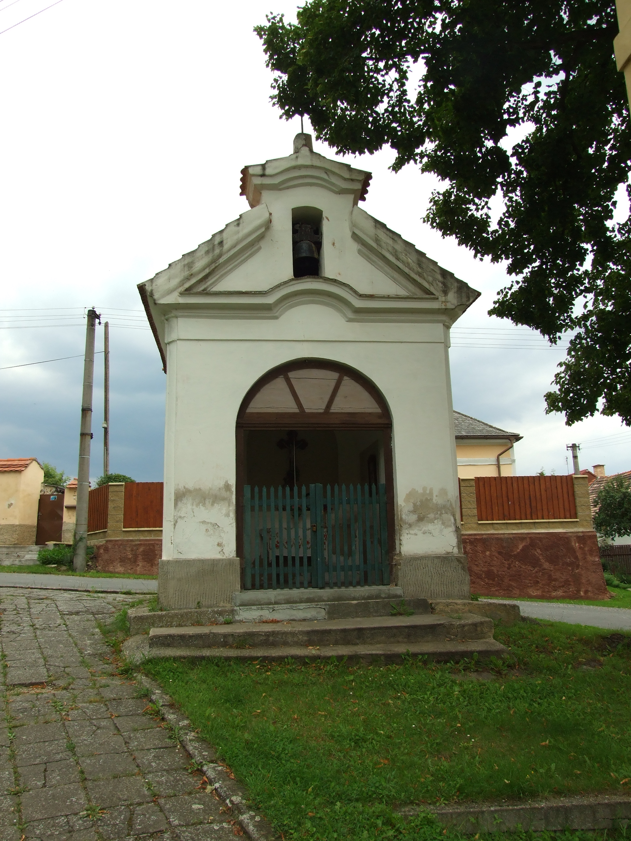 Hřešice (Pozdeň) - a chapel in the central part of the village, Central Bohemian Region, CZ